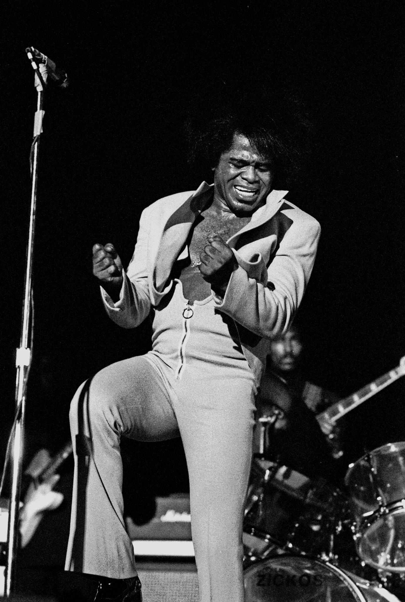 James Brown performing live in Hamburg, Germany, February 1973.